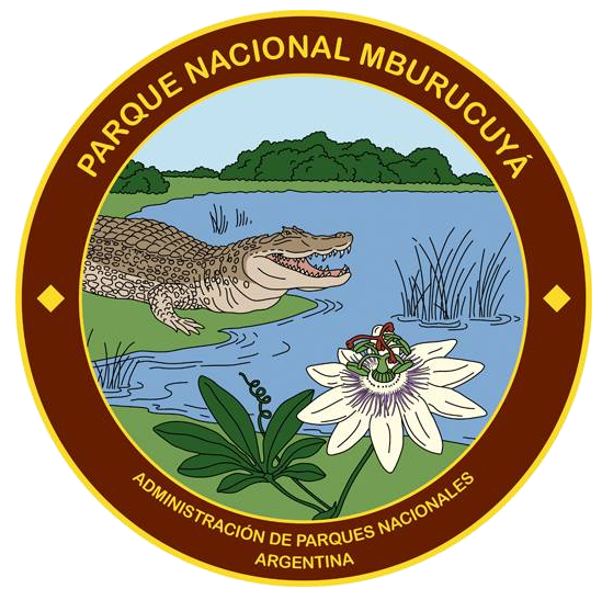 Logo of Mburucuyá national park, sited in Corrientes Province of Argentina.